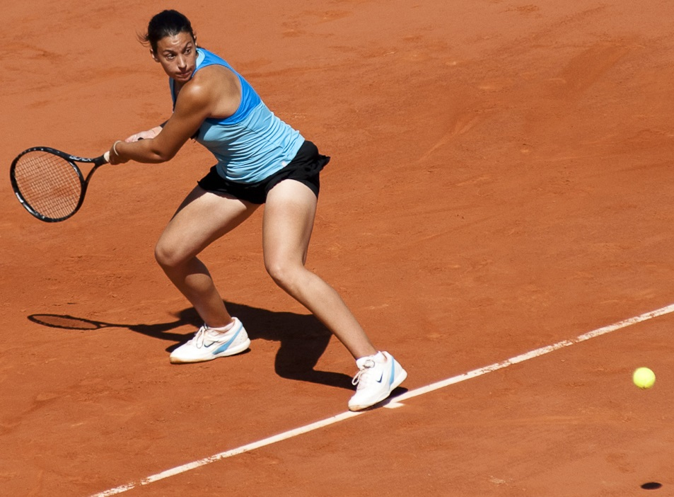 French Open of tennis semifinal, Francesca Schiavone vs Marion Bartoli.